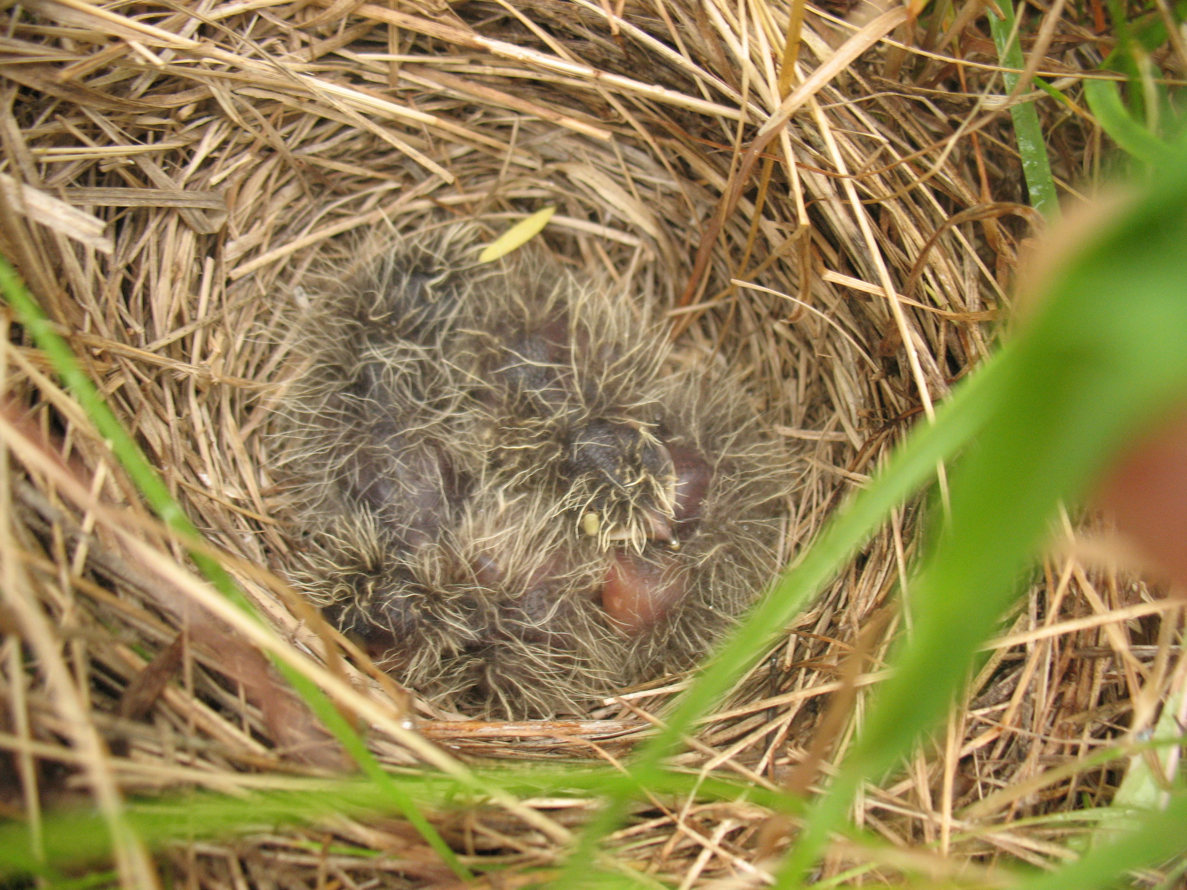 The nest of Whinchat (Saxicola rubetra)